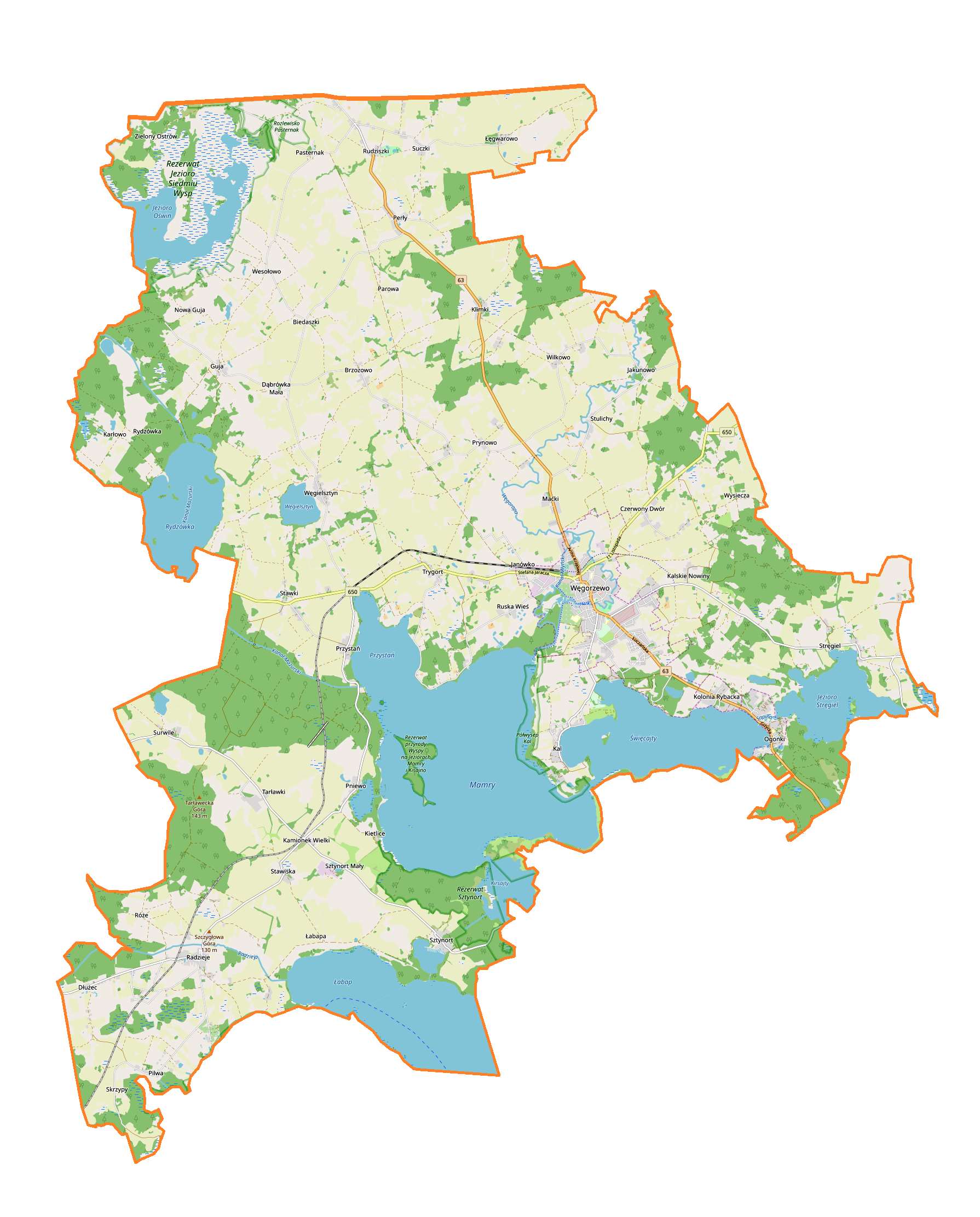 Location map